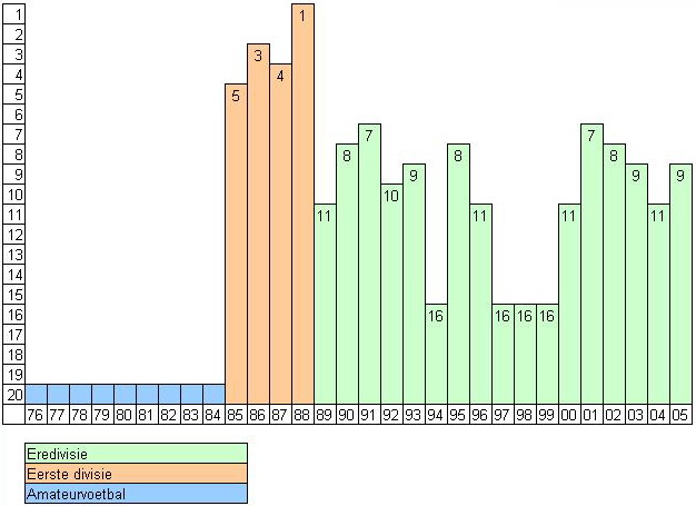 Dutch league positions of RKC, last 30 seasons